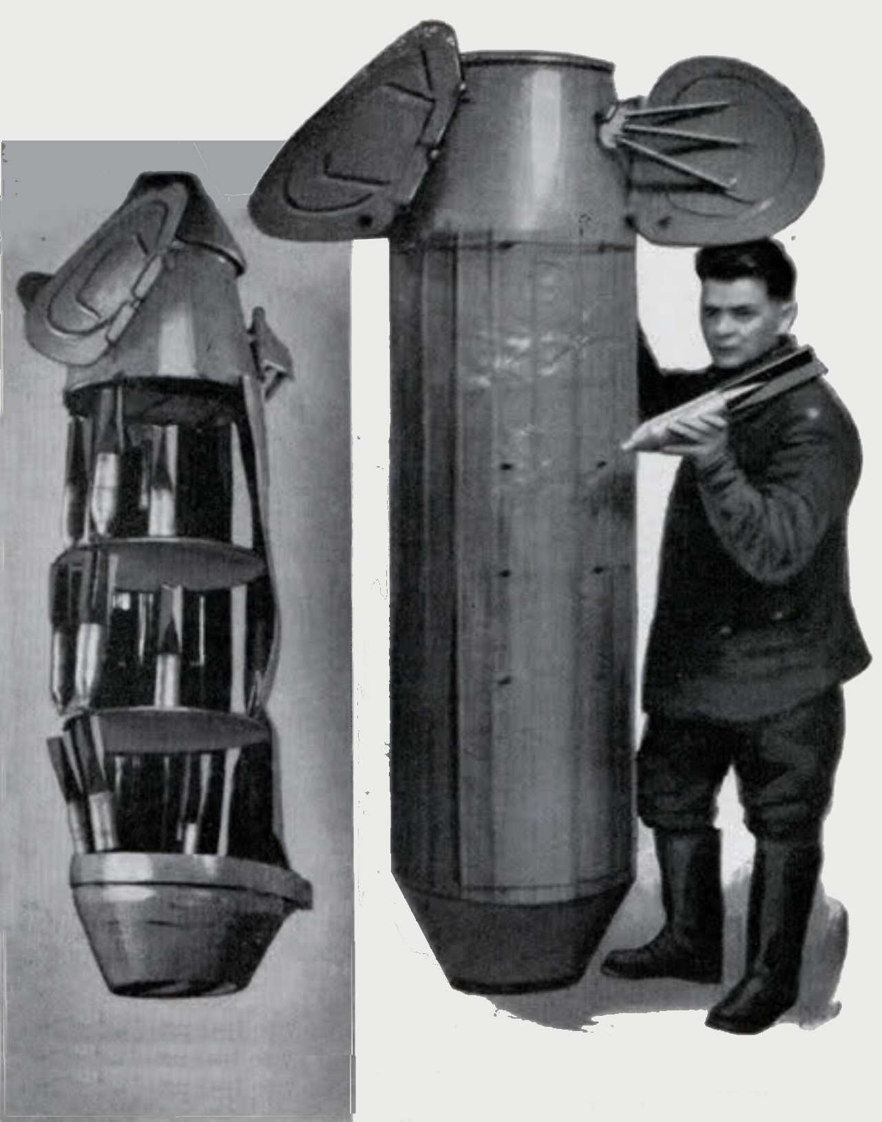 The so-called Molotov bread basket Soviet fire bomb used in the Winter War.